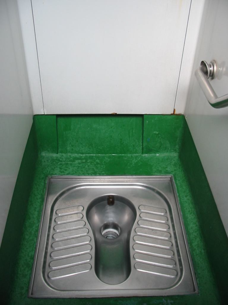 A stainless steel squat toilet found in Hing Fat Street Public Toilet, Hong Kong